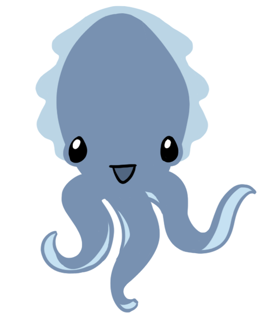 Cuddles is the mascot for the Hy language (and the logo!) and is used in the header logo.